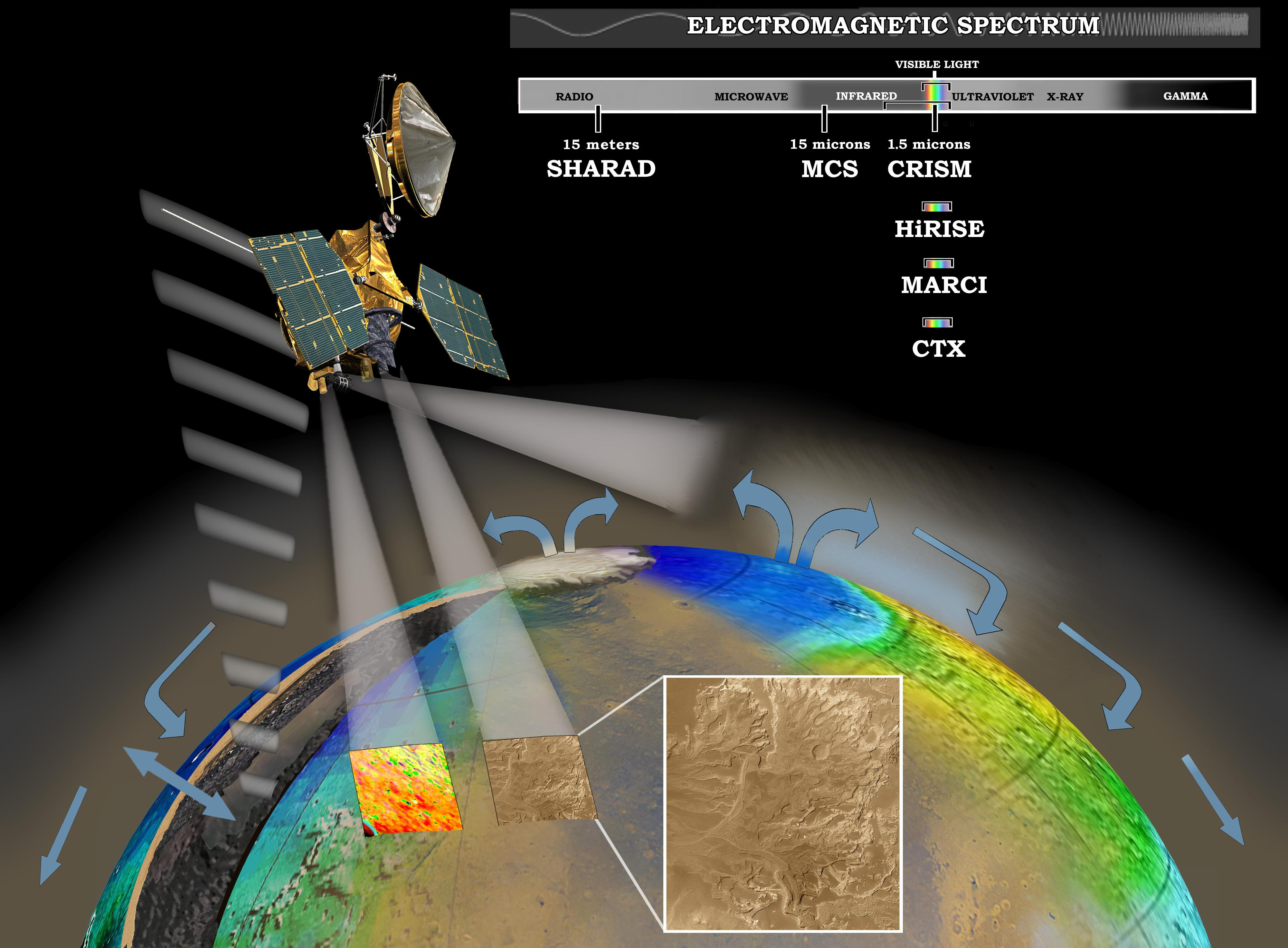 MRO investigating Martian water cycle - This artist's concept represents the "Follow the Water" theme of NASA's Mars Reconnaissance Orbiter mission. The orbiter's science instruments monitor the present water cycle in the Mars atmosphere and the associated deposition and sublimation of water ice on the surface, while probing the subsurface to see how deep the water-ice reservoir detected by Mars Odyssey extends. At the same time, Mars Reconnaissance Orbiter will search for surface features and minerals (such as carbonates and sulfates) that record the extended presence of liquid water on the surface earlier in the planet's history. The instruments involved are the Shallow Subsurface Radar, the Compact Reconnaissance Imaging Spectrometer for Mars, the Mars Color Imager, the High Resolution Imaging Science Experiment, the Context Camera and the Mars Climate Sounder. To the far left, the radar antenna beams down and "sees" into the first few hundred feet (up to 1 kilometer) of Mars' crust. Just to the right of that, the next beam highlights the data received from the imaging spectrometer, which identifies minerals on the surface. The next beam represents the high-resolution camera, which can "zoom in" on local targets, providing the highest-resolution orbital images yet of features such as craters and gullies and rocks. The beam that shines almost horizontally is that of the Mars Climate Sounder. This instrument is critical to analyzing the current climate of Mars since it observes the temperature, humidity, and dust content of the martian atmosphere, and their seasonal and year-to-year variations. Meanwhile, the Mars Color Imager observes ice clouds, dust clouds and hazes, and the ozone distribution, producing daily global maps in multiple colors to monitor daily weather and seasonal changes. The electromagnetic spectrum is represented on the top right and individual instruments are placed where their capability lies.